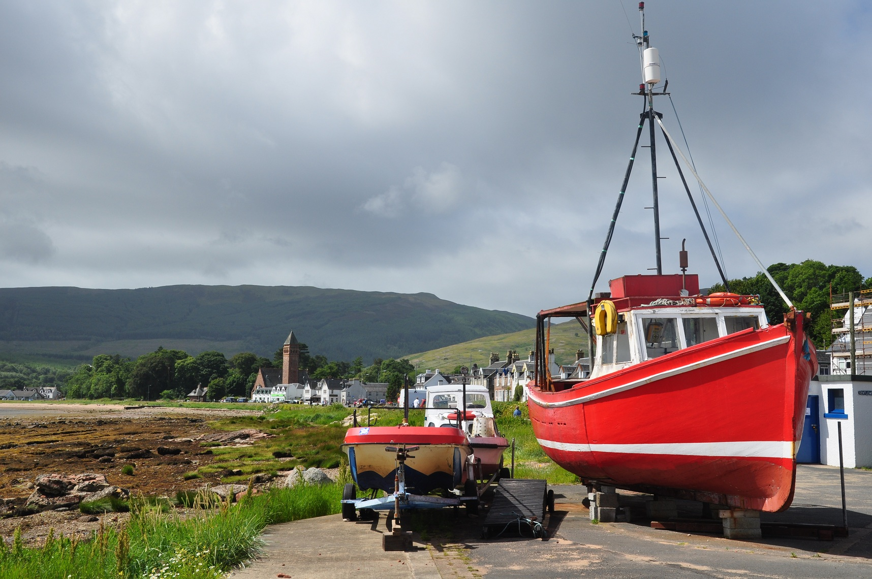 The seafront at Lamlash, Isle of Arran, Schotland. In the distance the Parish church.